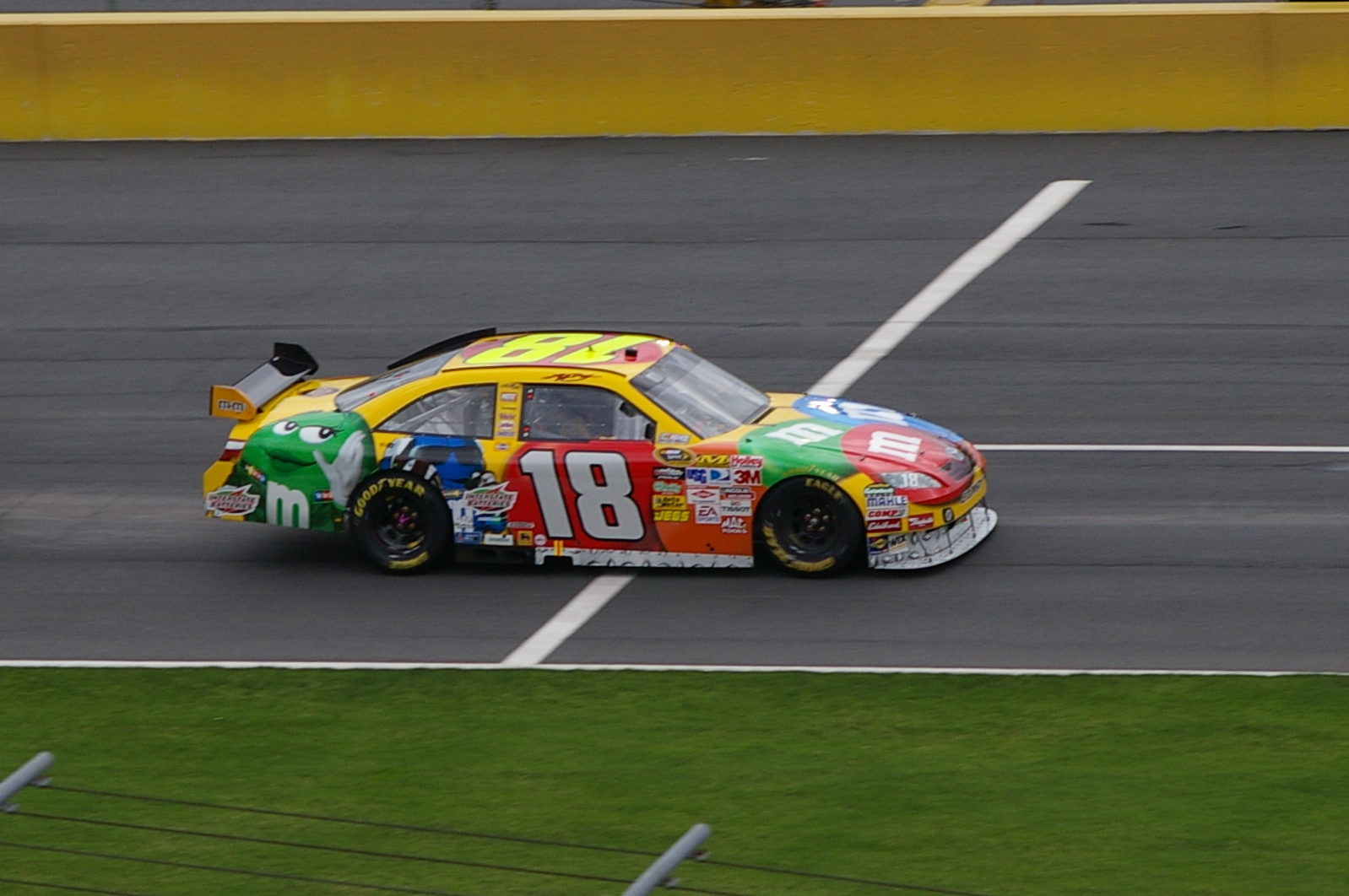 Kyle Busch driving the 18 car on pit road in the 2009 Coca-Cola 600.